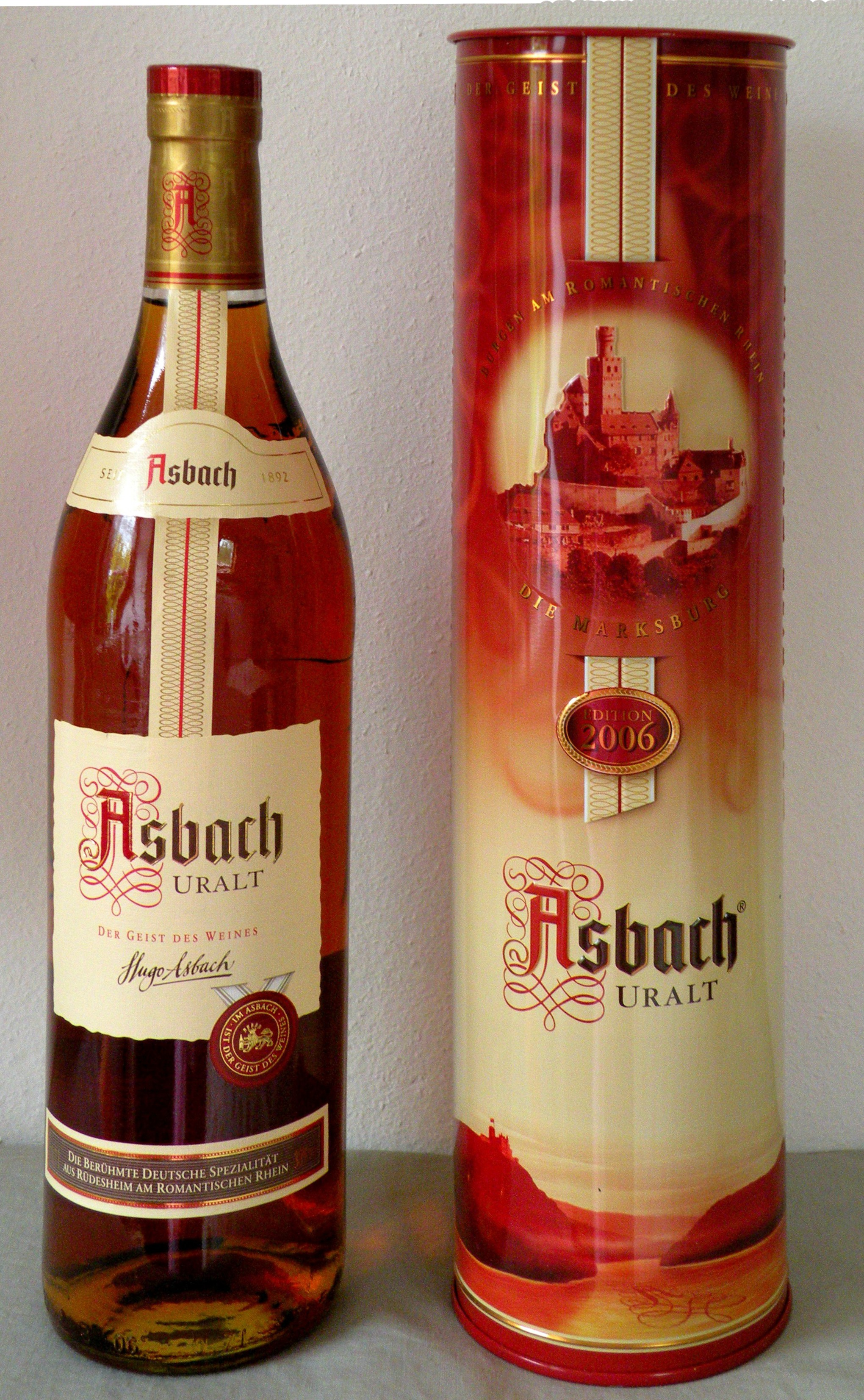 Gift set Asbach Uralt weinbrand